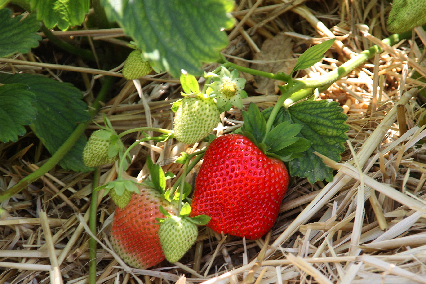 Fragarias of Wiesen (Austria).